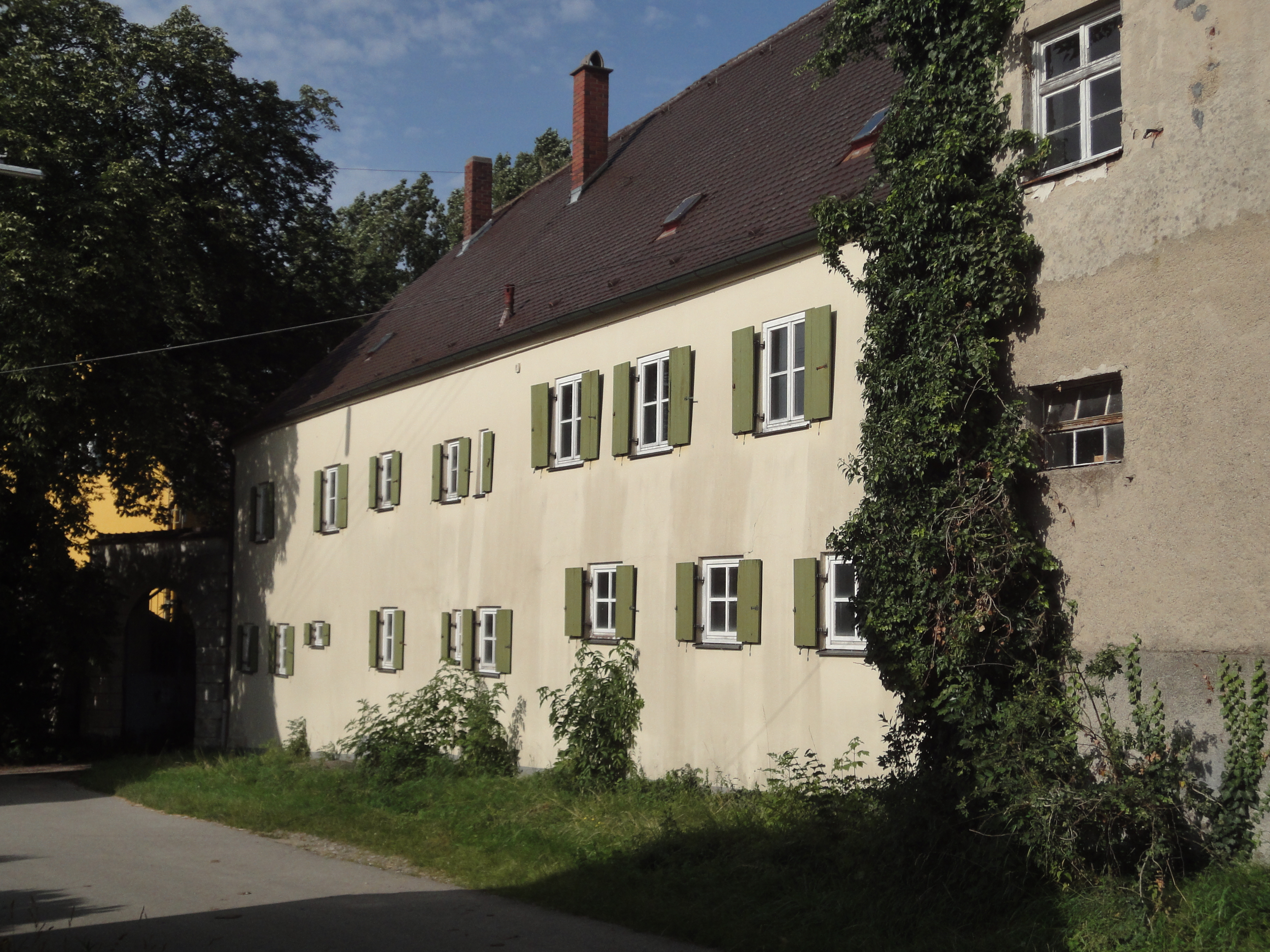 Building in Gailenbach, Gersthofen